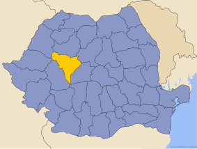 Location of Alba County in Romania.